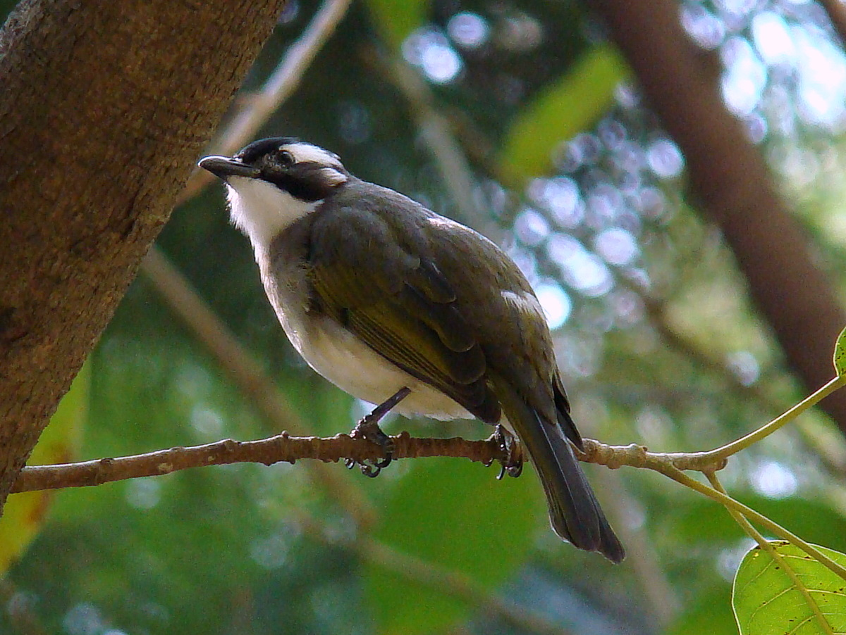 Light-vented Bulbul